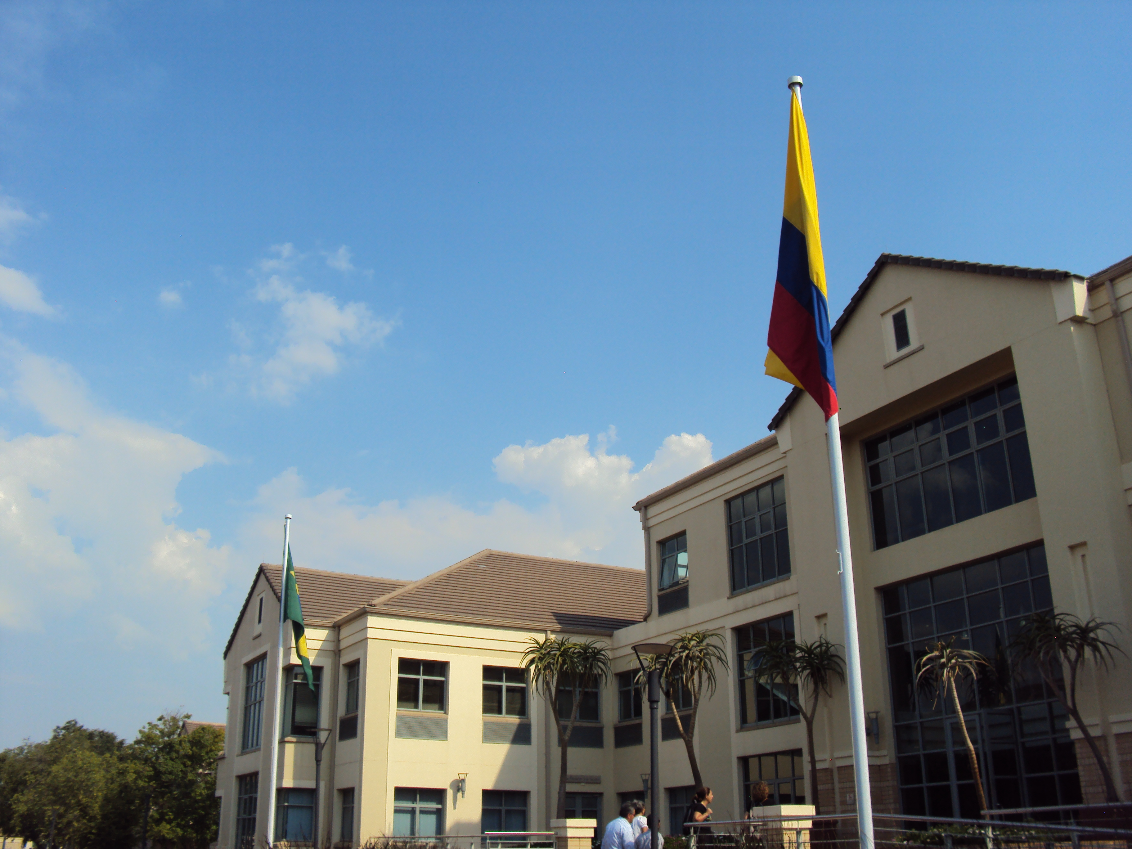 Embassies of Colombia and Brazil in Pretoria, South Africa